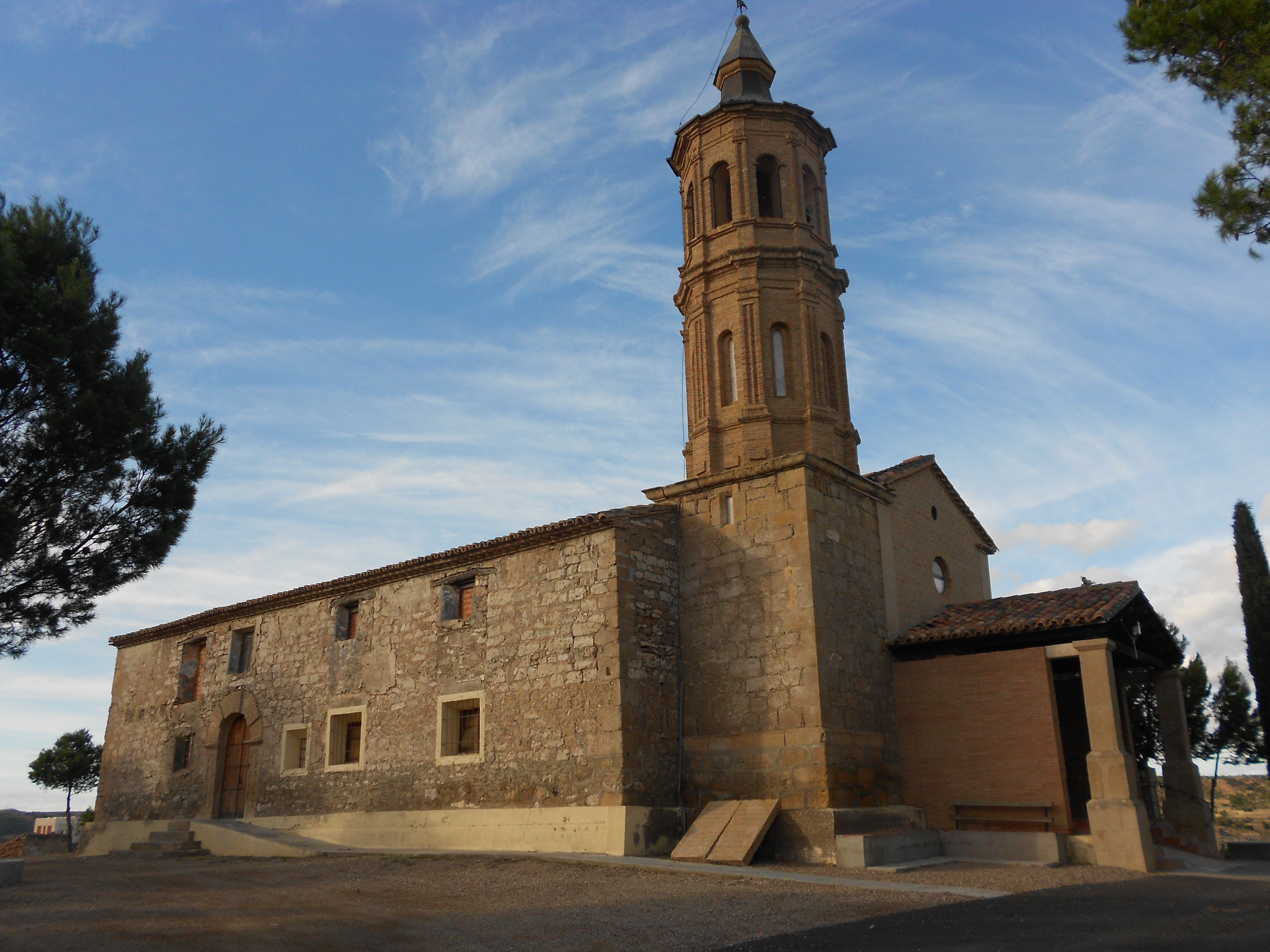 Santa Agueda Hermitage (Escatrón, Spain)